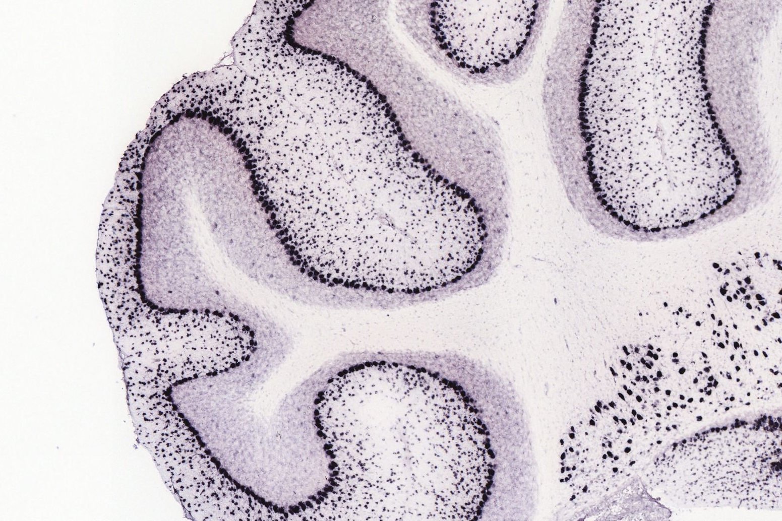 Pvalb In Situ Hybridization Staining in P56 day mice in the cerebellum